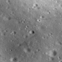 Halo crater, Mare Cognitum, on the moon.